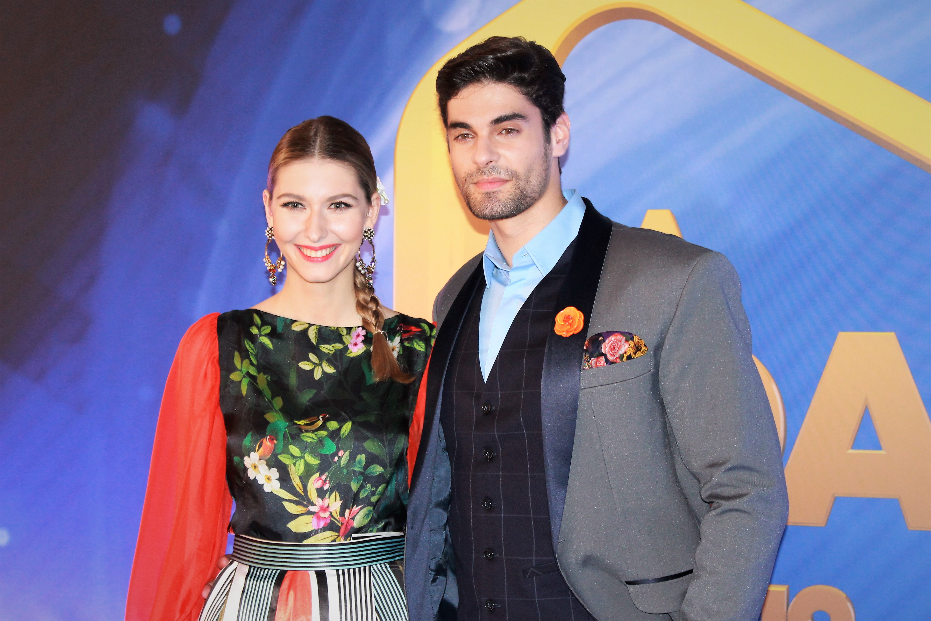 The hosts of A Dal 2019: Bogi Dallos & Freddie